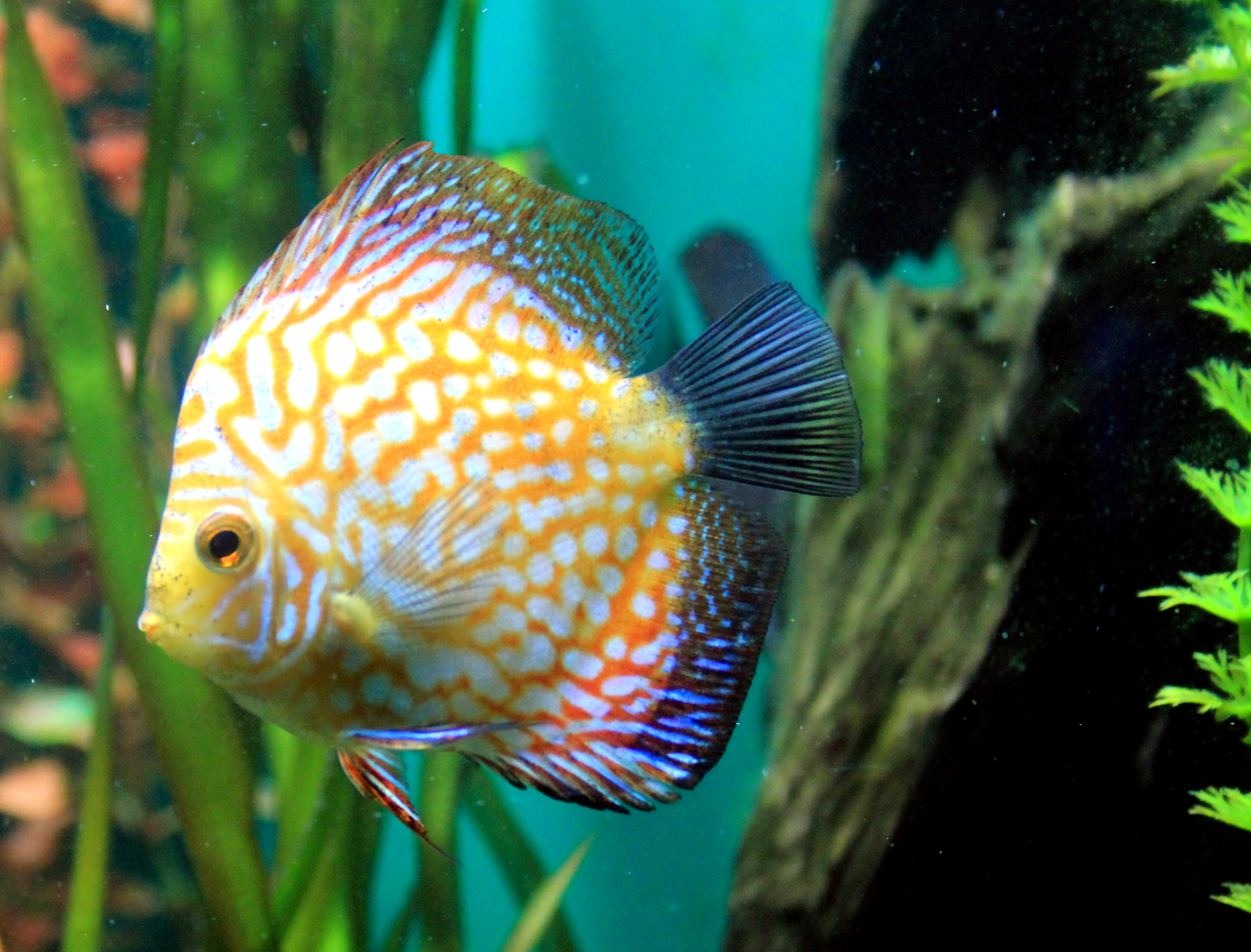 Fish Symphysodon haraldi, (Symphysodon haraldi) in Prague sea aquarium “Sea world”, Czech Republic